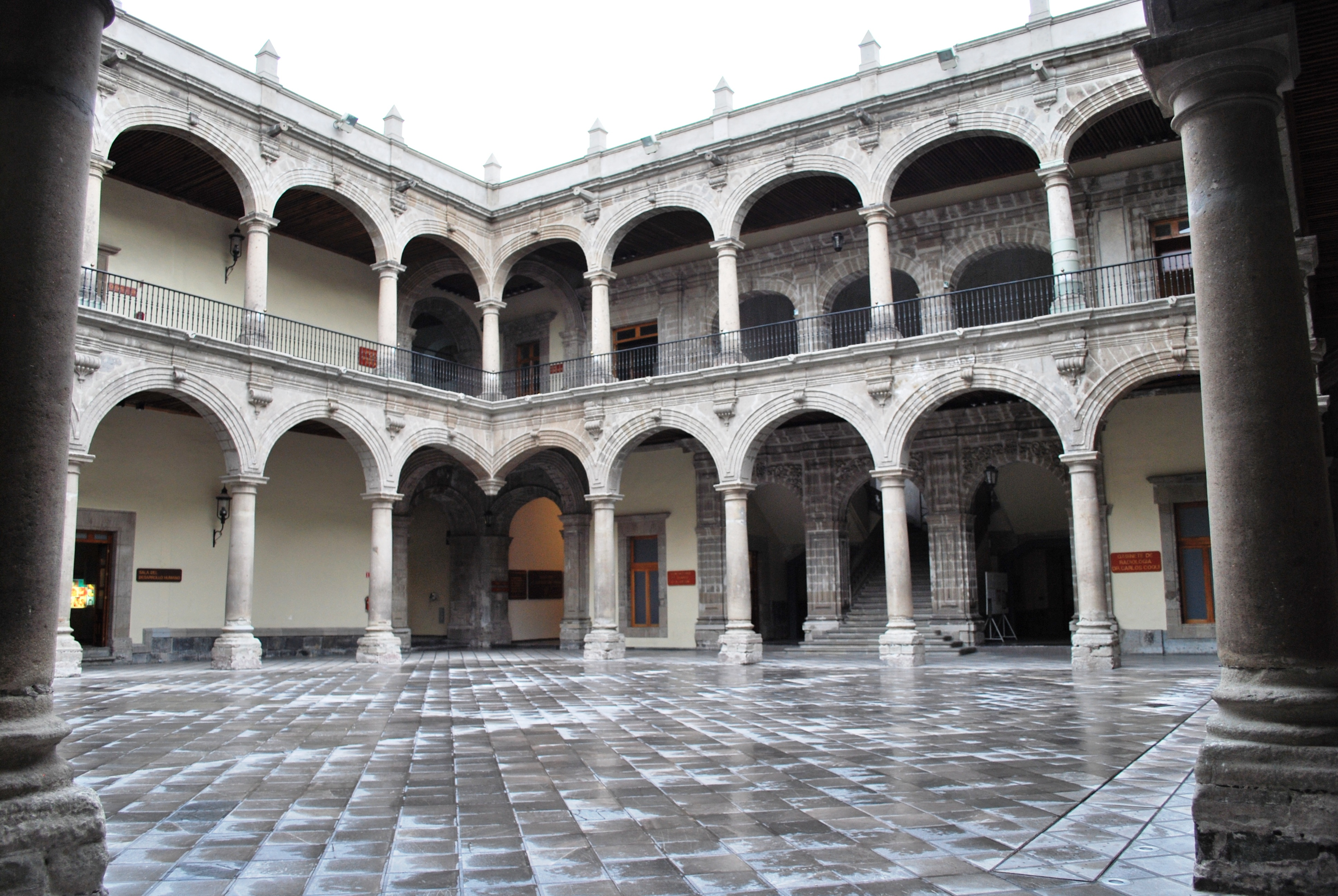 Main patio inside the Palace of Inquisition-Museum of Mexican Medicine located in the historic center of Mexico City.